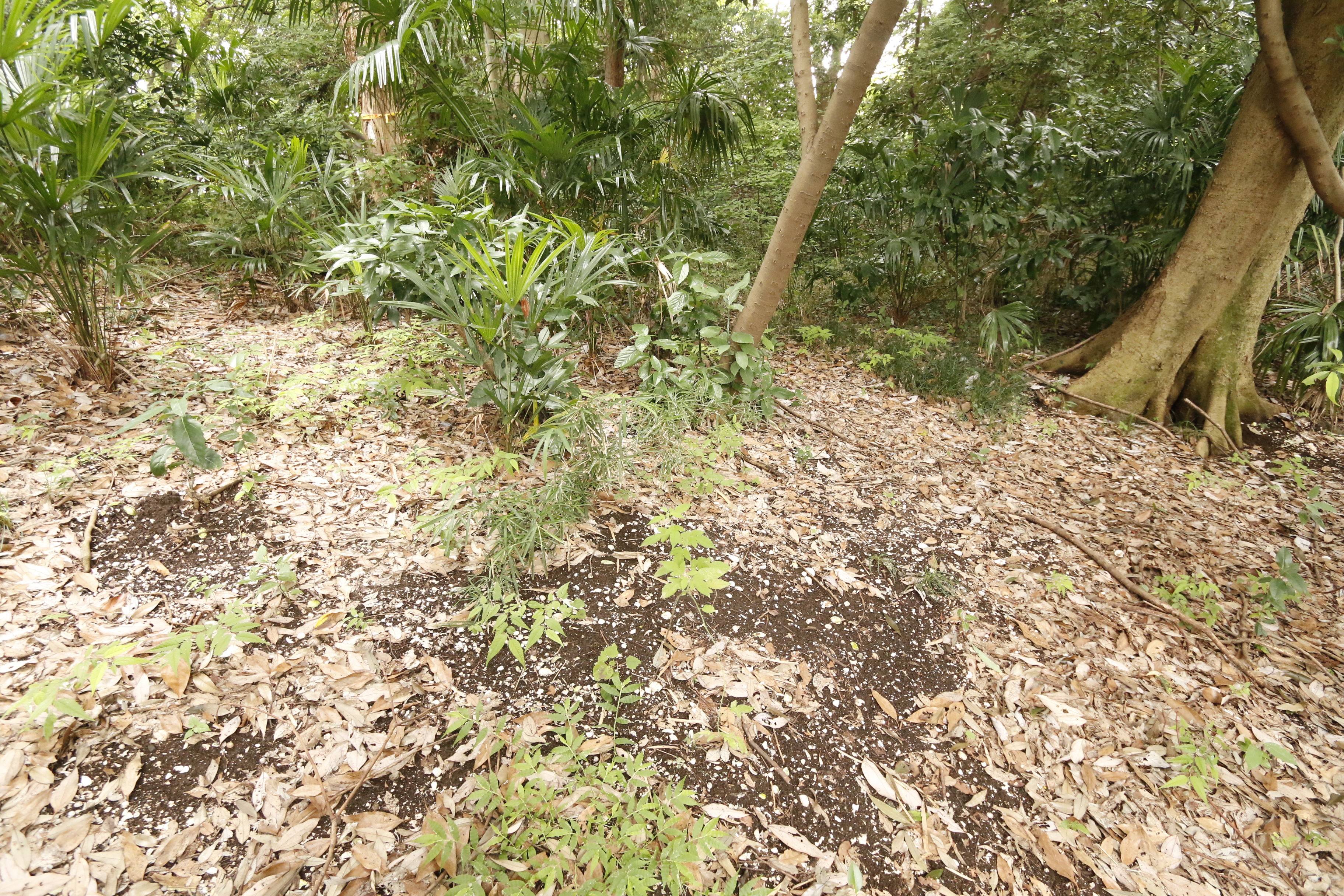 Horinouchi Shell Mound (Horinouchi kaizuka) in Ichikawa City, Chiba Prefecture, Japan